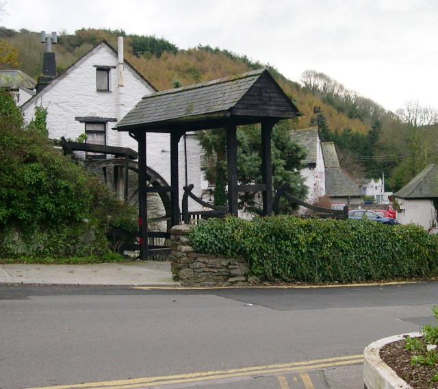 The Old Watermill at Crumplehorn This is now a holiday hotel.